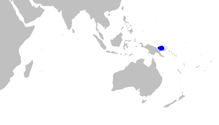 Distribution map for Gogolia filewoodi